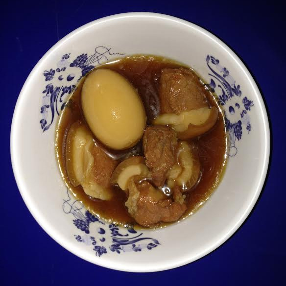 A typical Vietnamese caramelized pork and eggs dish